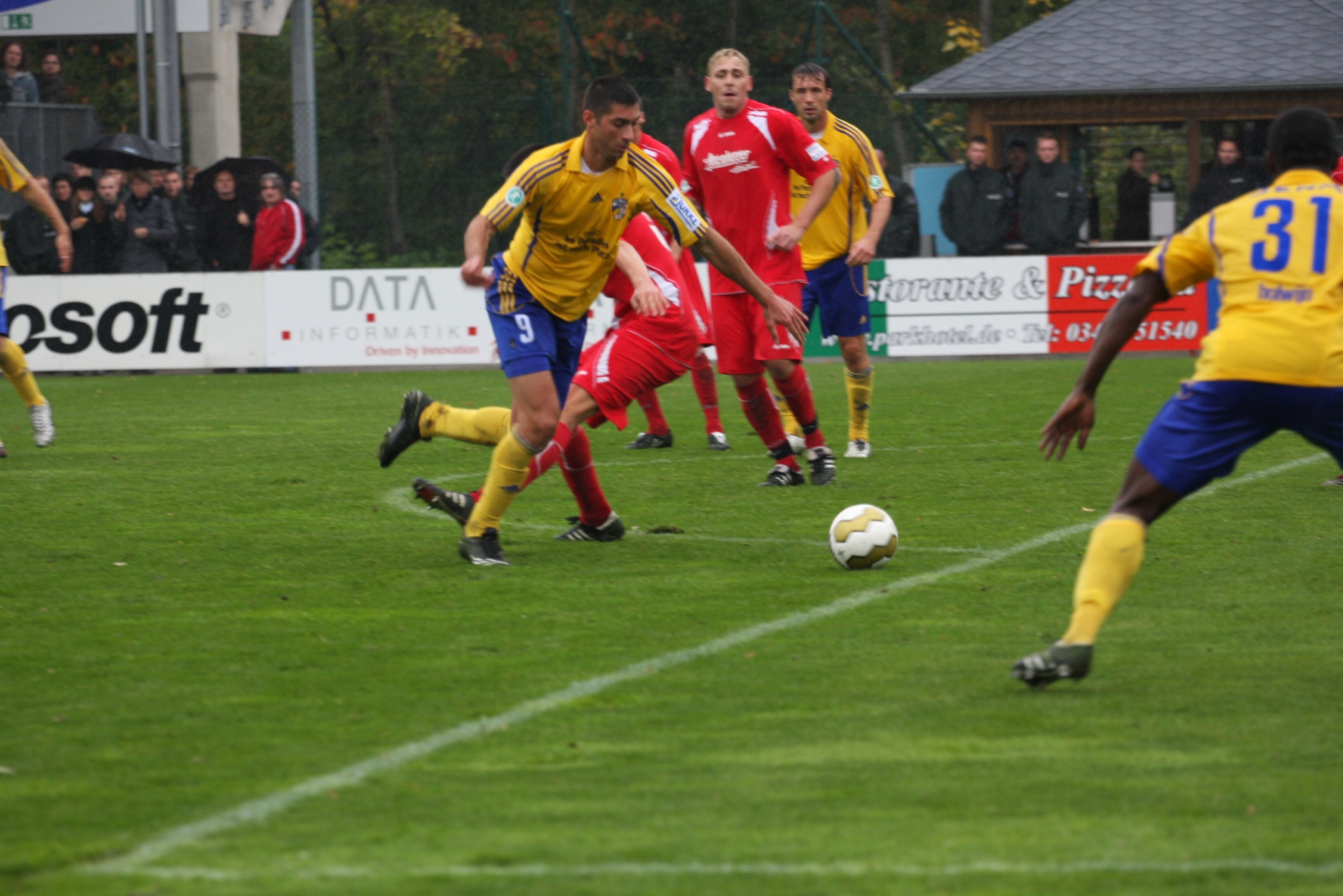 Salvatore Amirante against ZFC Meuselwitz; his last match for FC Carl Zeiss Jena